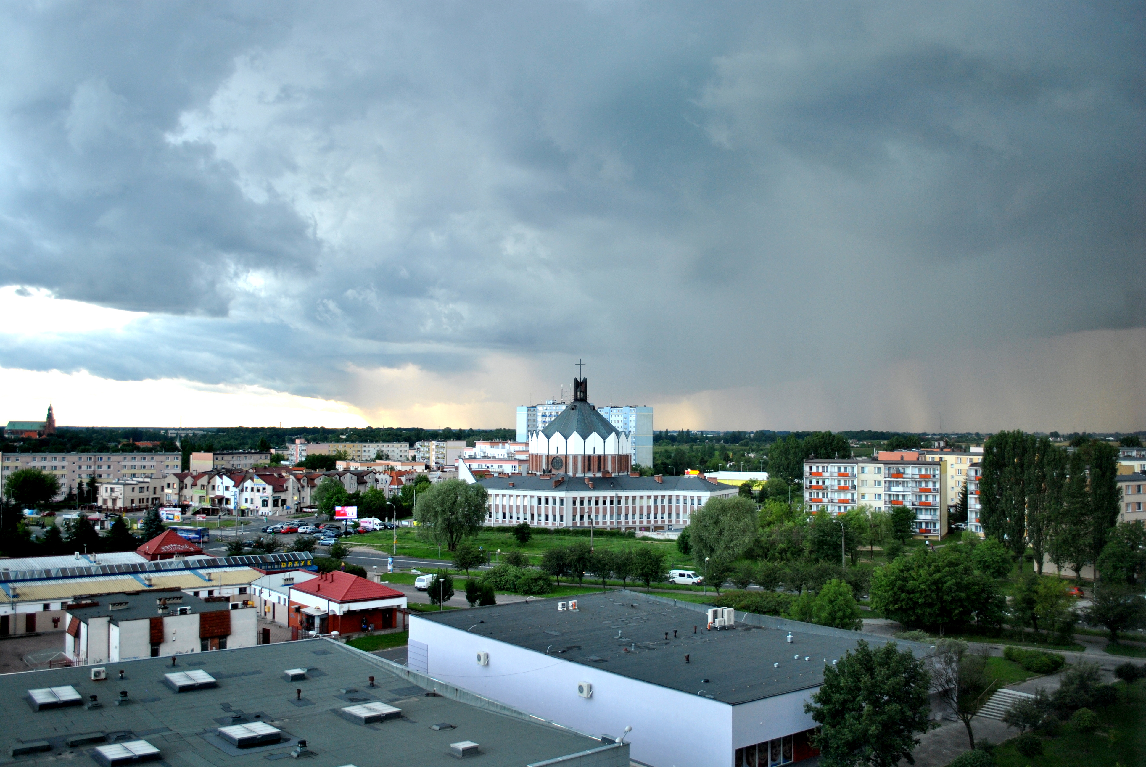 Church of Blessed Radim Gaudentius in front of Winiary